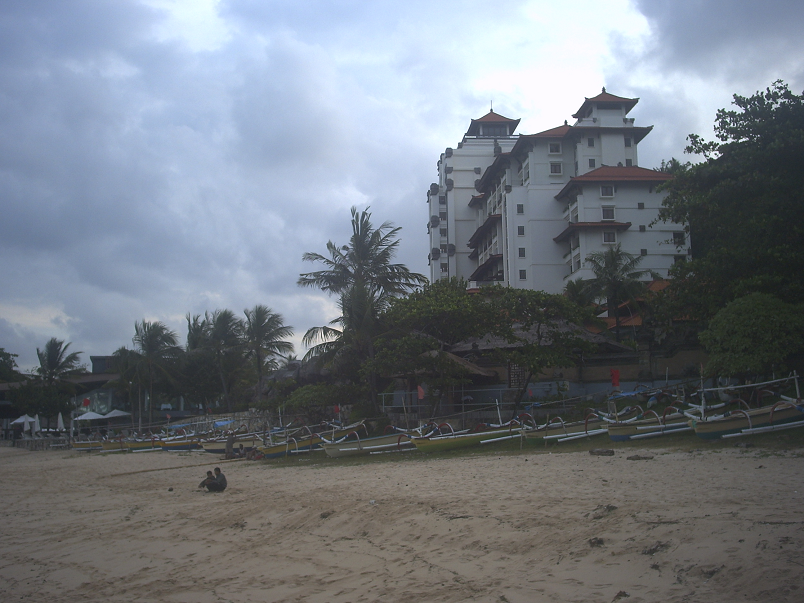 Nikko Hotel, Nusa Dua, Bali, the photo is taken from the beach behind the hotel